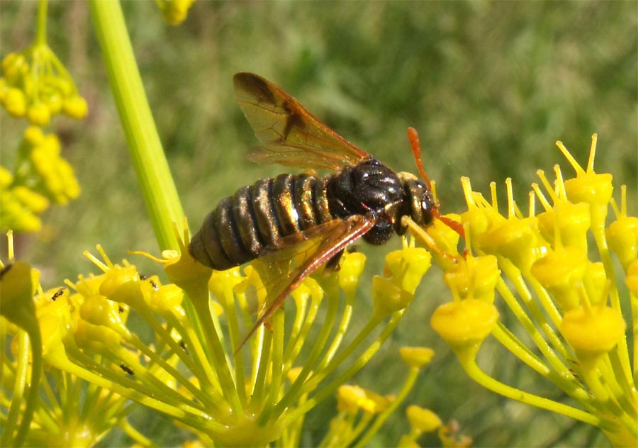 Abia sericea on Ferula communis flowers. Foce Candelaro, Foggia province, Apulia, Southern Italy. Photo by Marcelli Massimiliano.